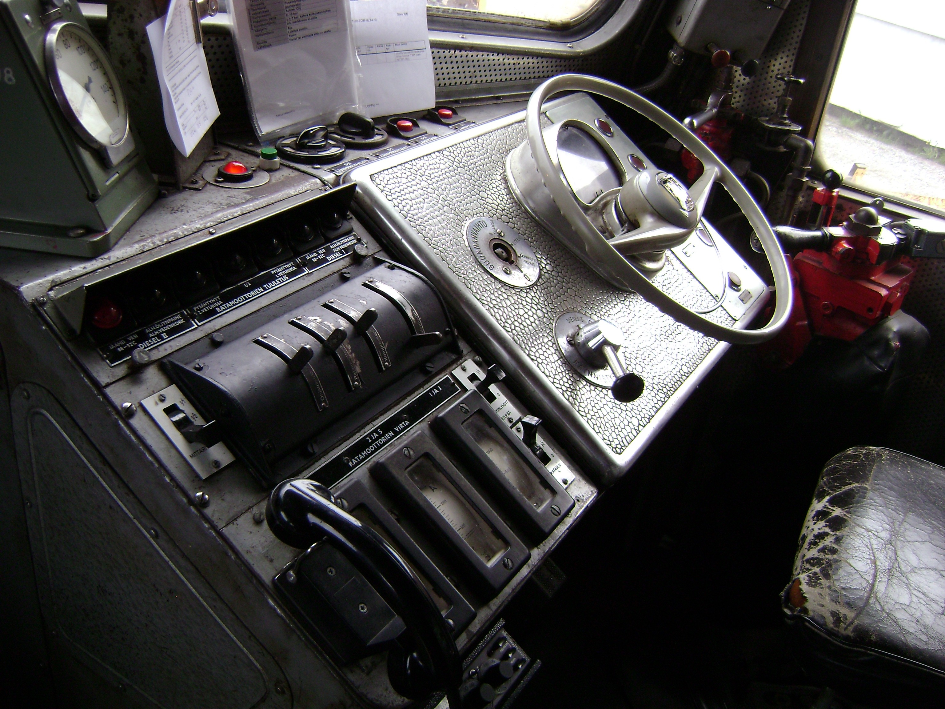 Cockpit of a VR Class Dv12 diesel locomotive